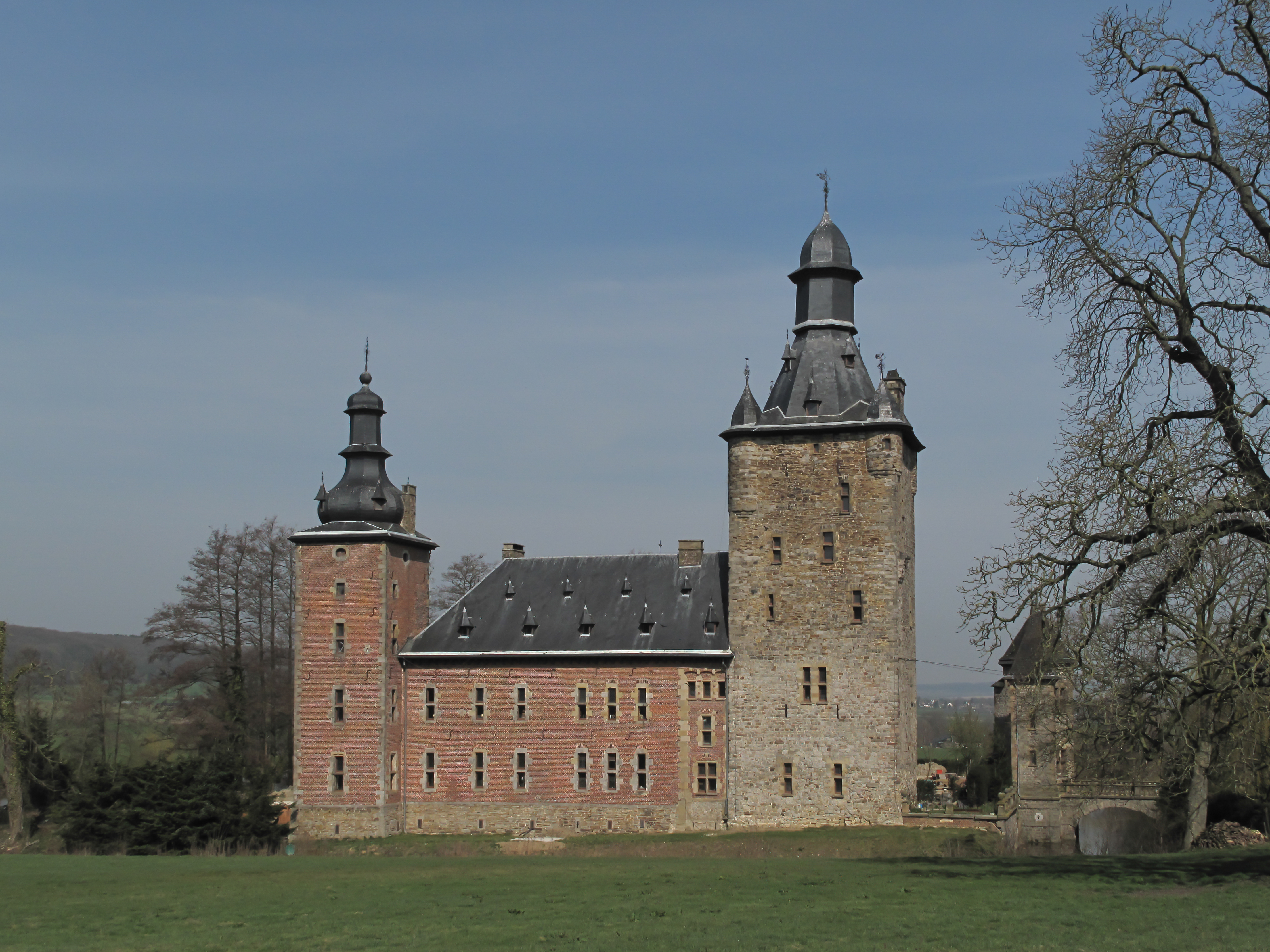 Sippenaeken, castle: château Beusdael